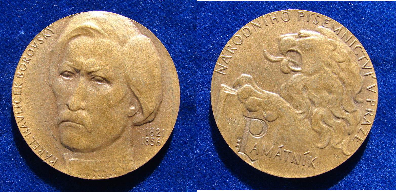 D. = 35 mm. Havlíček Borovský, Karel, Czech Journalist, 1821 Borová - 1856 Prague, Czechia Head l., 2 lines r.: "1821 1856", curved l.: "KAREL HAVLÍČEK BOROVSKÝ"/Lionhead l., below: "1971 PAMÁTNÍK", curved above: "NÁRODNÍHO PÍSEMNICTVÍ V PRAZE". Medallist: MK / M. Knobloch, Czech Designer Condition: UNCIRCULATED.